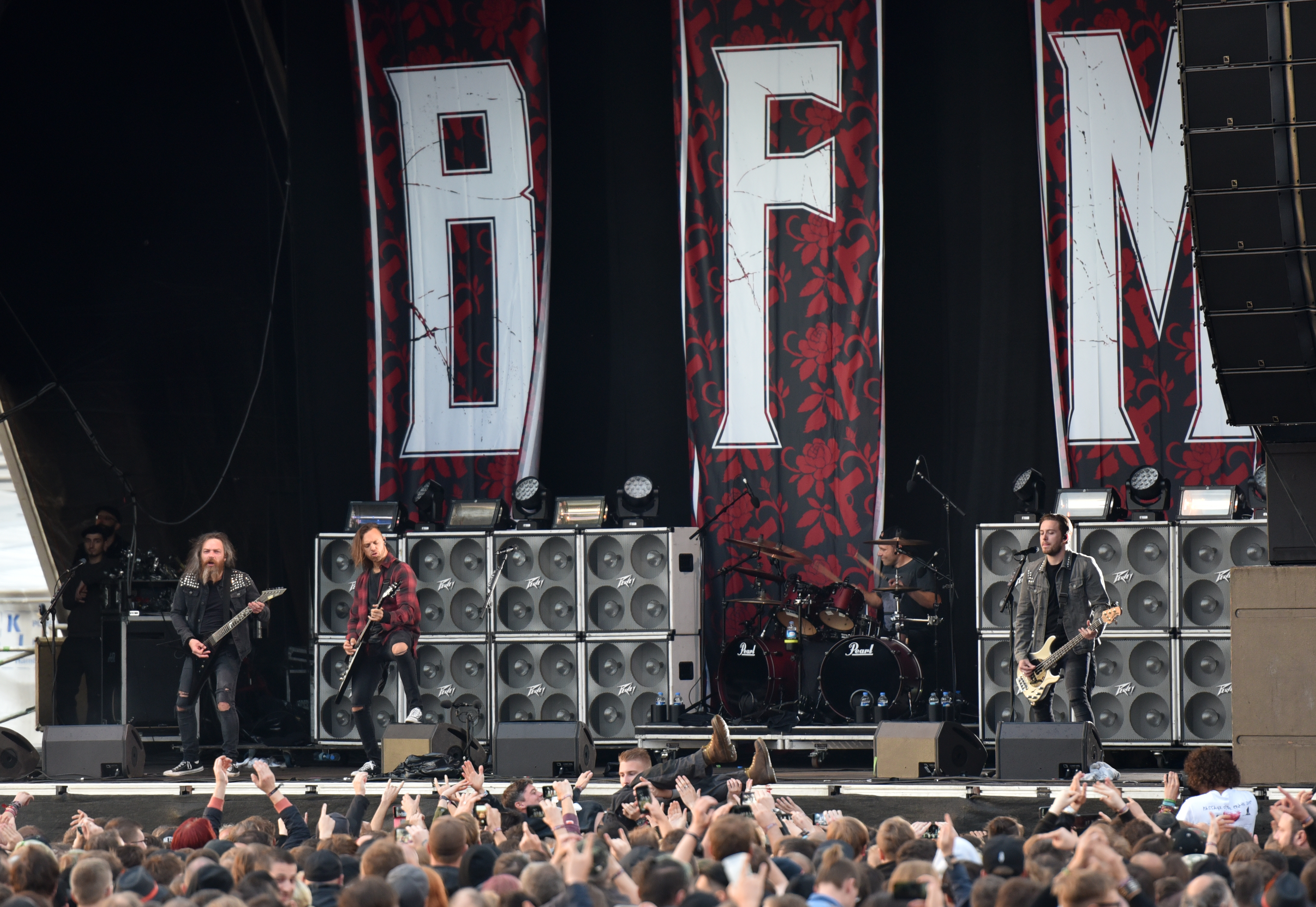 Bullet for My Valentine playing at Reload Festival 2017